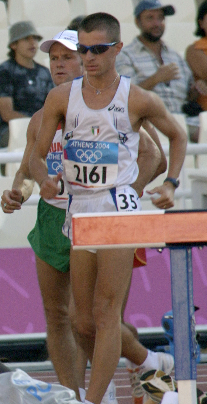 Ivano Brugnetti in the 20K Racewalk competition during the 2004 Olympics at the Olympic Stadium in Athens, Greece.